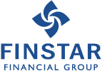 The official Finstar Financial Group logo.